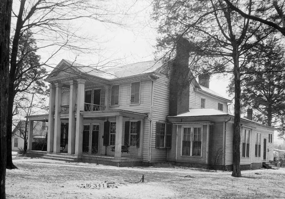 Governor George S. Houston House, 101 Houston Street, Athens (Limestone County, Alabama) cropped